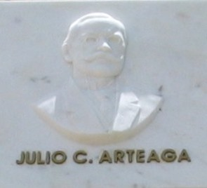 Julio Carlos de Arteaga Matheu, ca. 1919 (IMG 3384)